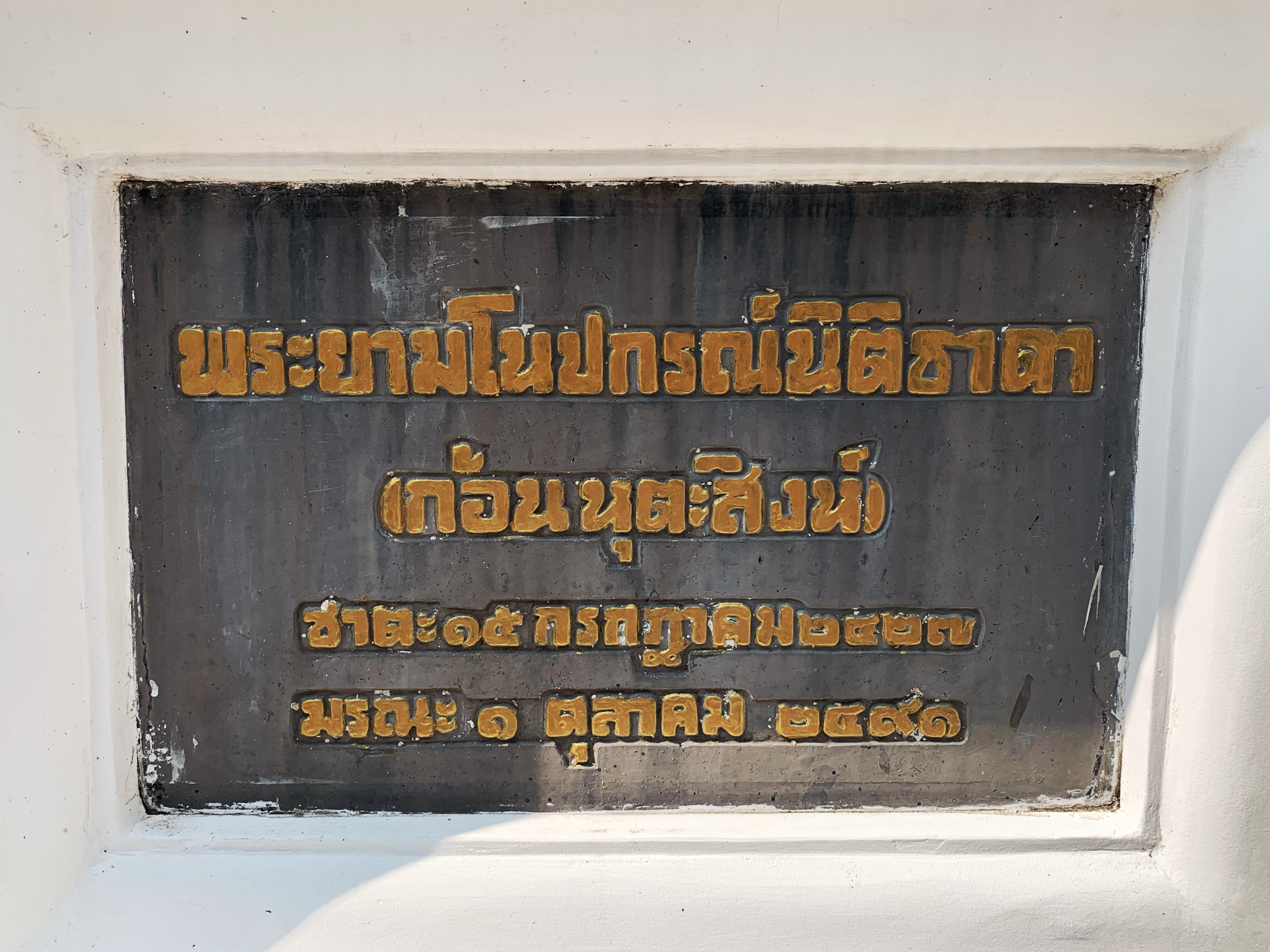 Phraya Manopakon Nitithada Memoriam Stone at Wat Pathum Wanaram, Bangkok